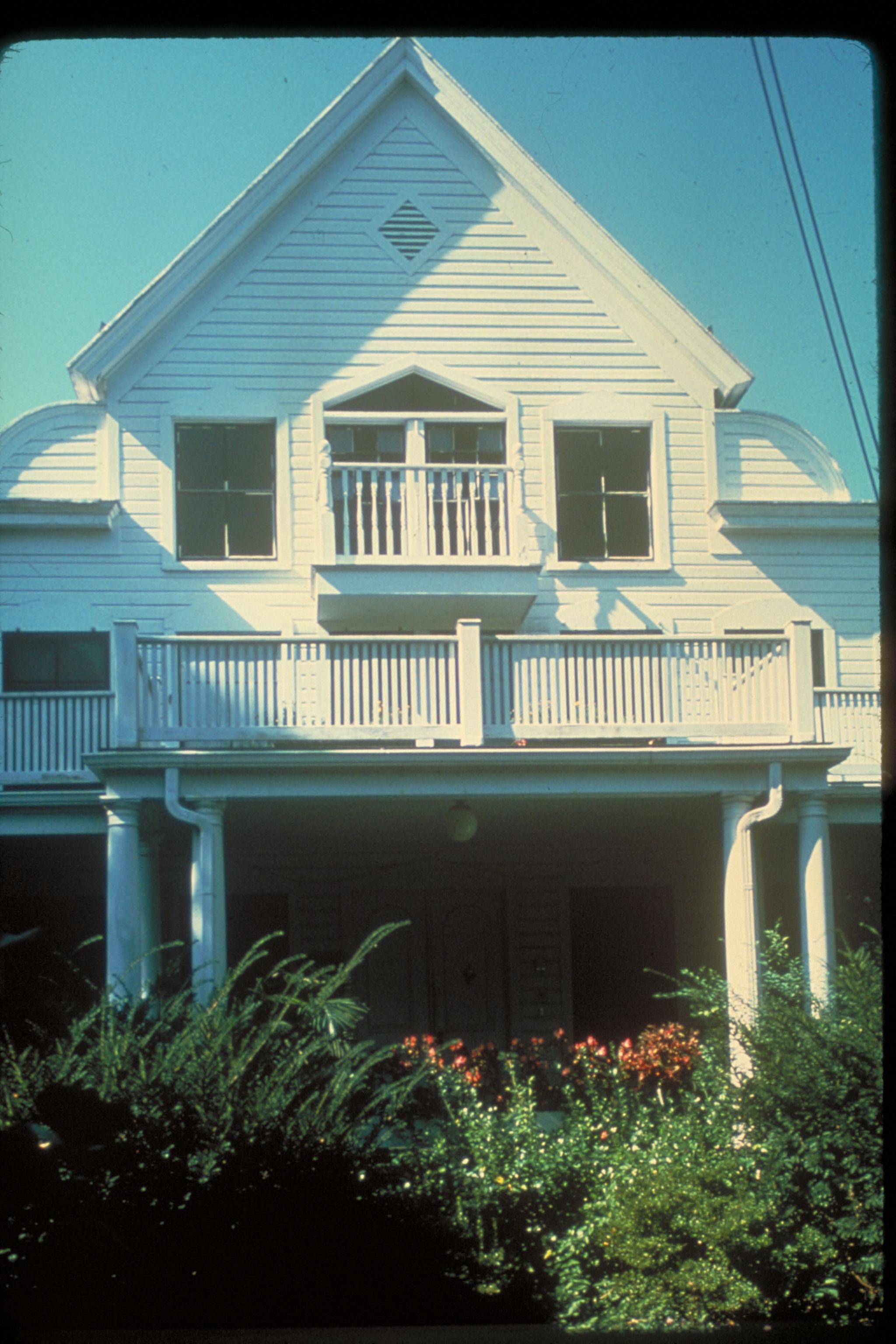 Clara Barton National Historic Site (Maryland)